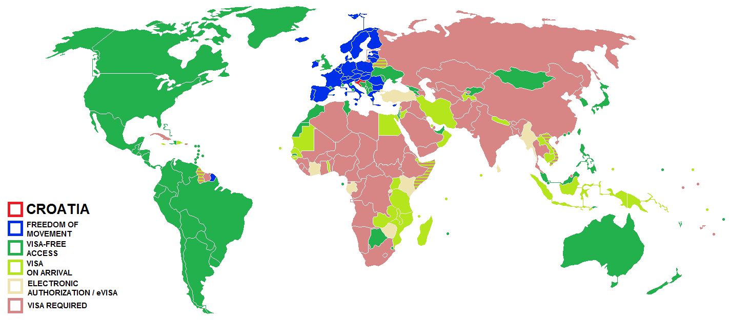 Visa requirements for Croatian citizens.